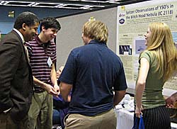 Tim Spuck's students discuss their search for T Tauri stars with renowned astrophysicist Neil deGrasse Tyson at the American Astronomical Society conference in January 2007.